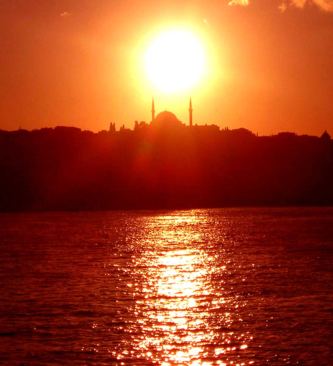 Sunset over the Golden Horn, Istanbul, Turkey. Photo by Bertil Videt 2003.